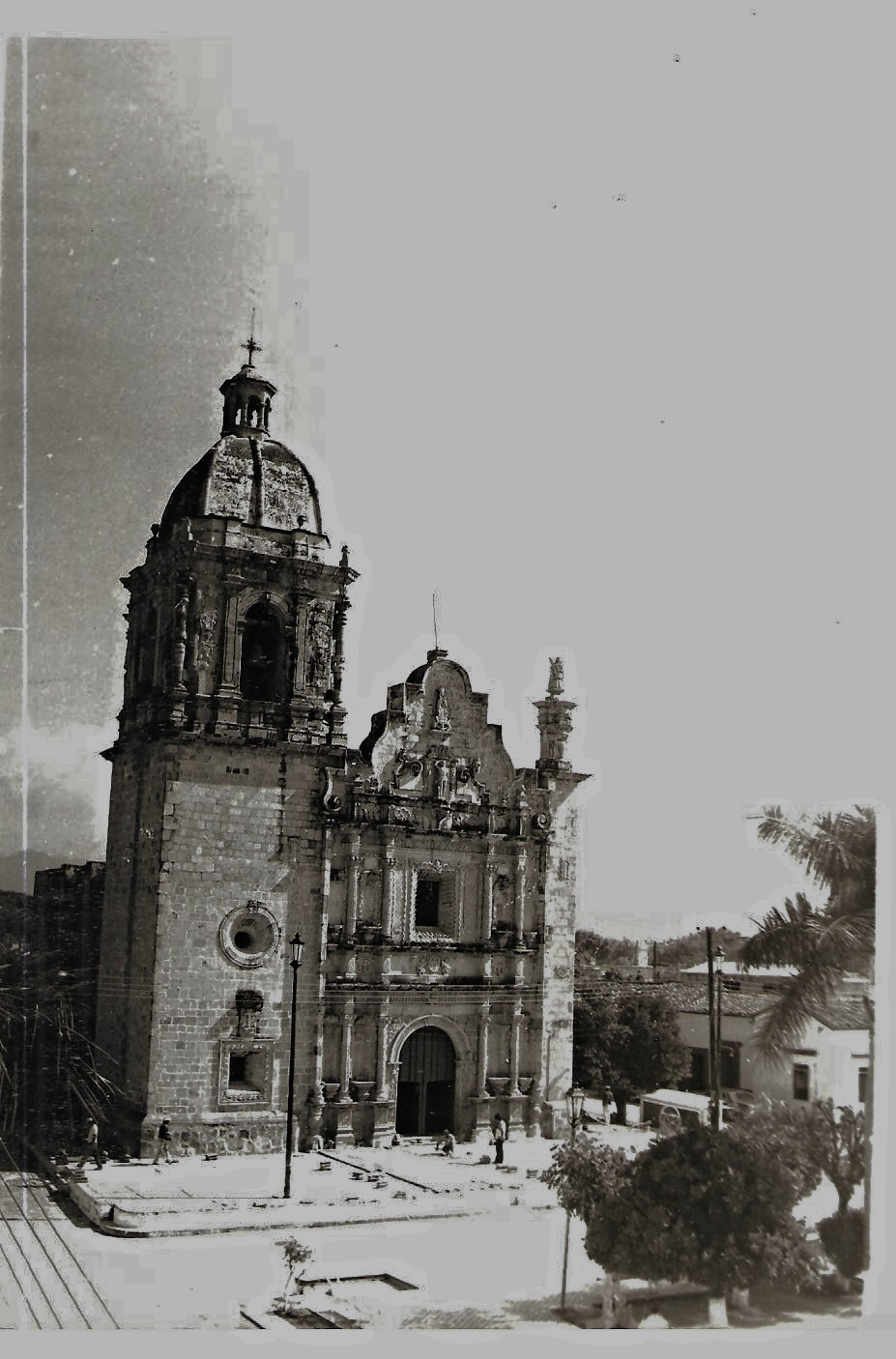 Concordia